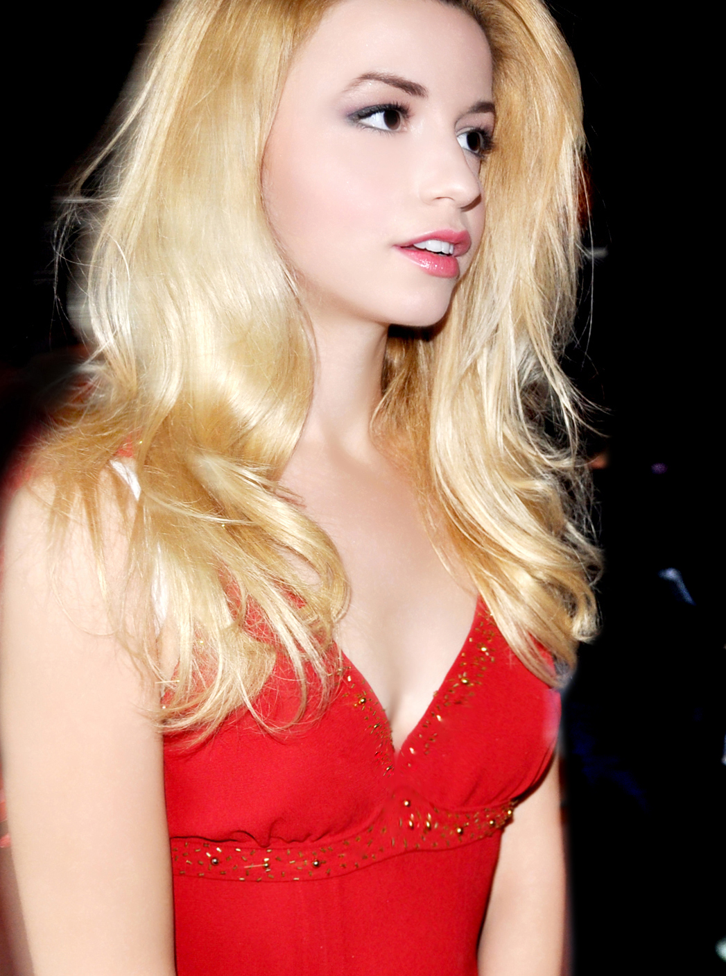 Masiela Lusha attending a P.A.L (Police Activities League) event in 2010.